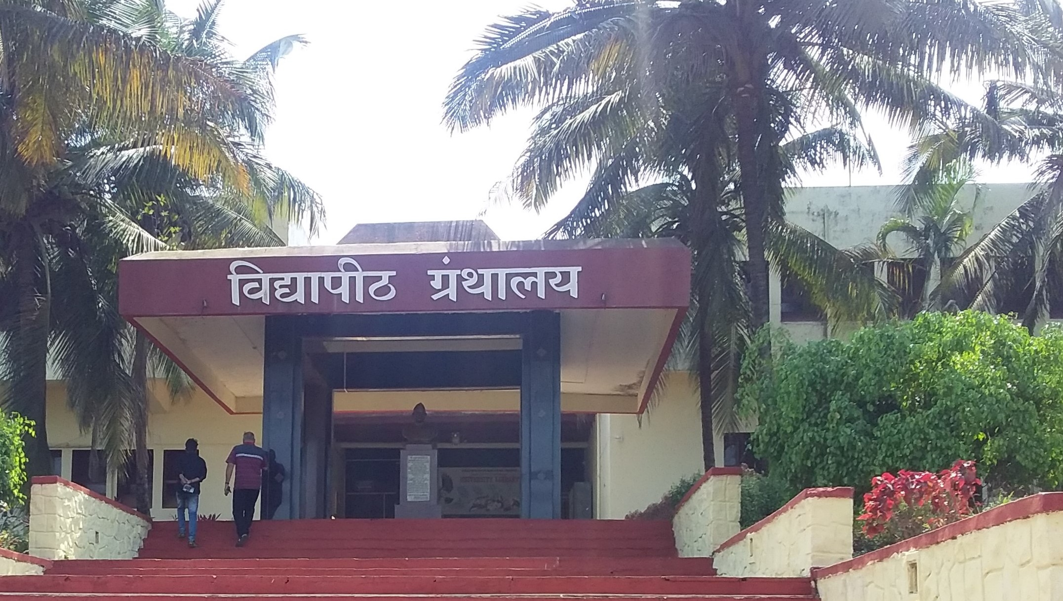 Library at Dr. Balasaheb Sawant Konkan Krishi Vidyapeeth, Dapoli, Maharashtra, India